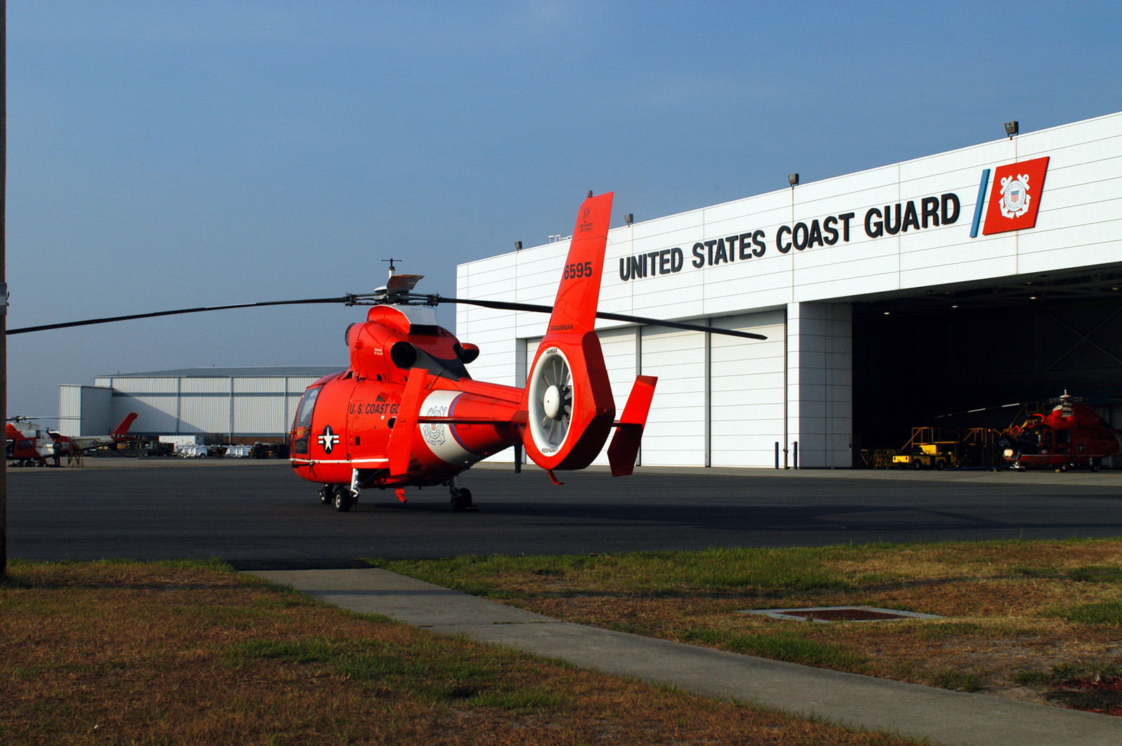 HH65 CGAS Savannah